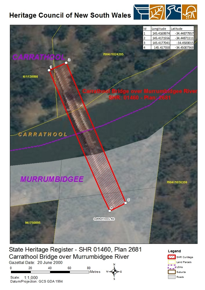 Murrumbidgee River bridge, Carrathool: SHR Plan No 2681